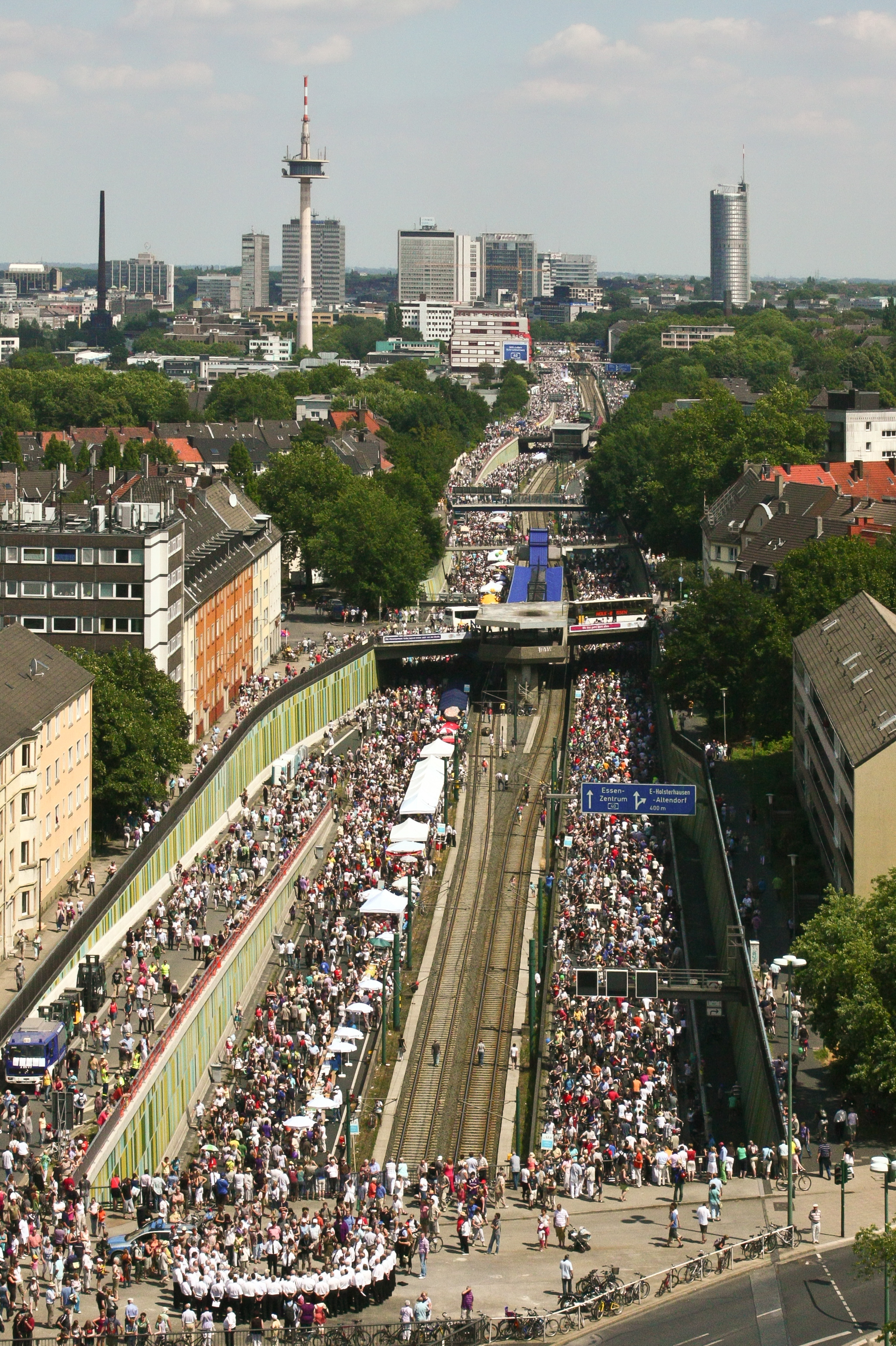 RUHR.2010 - Stillleben A40, Essen/Germany